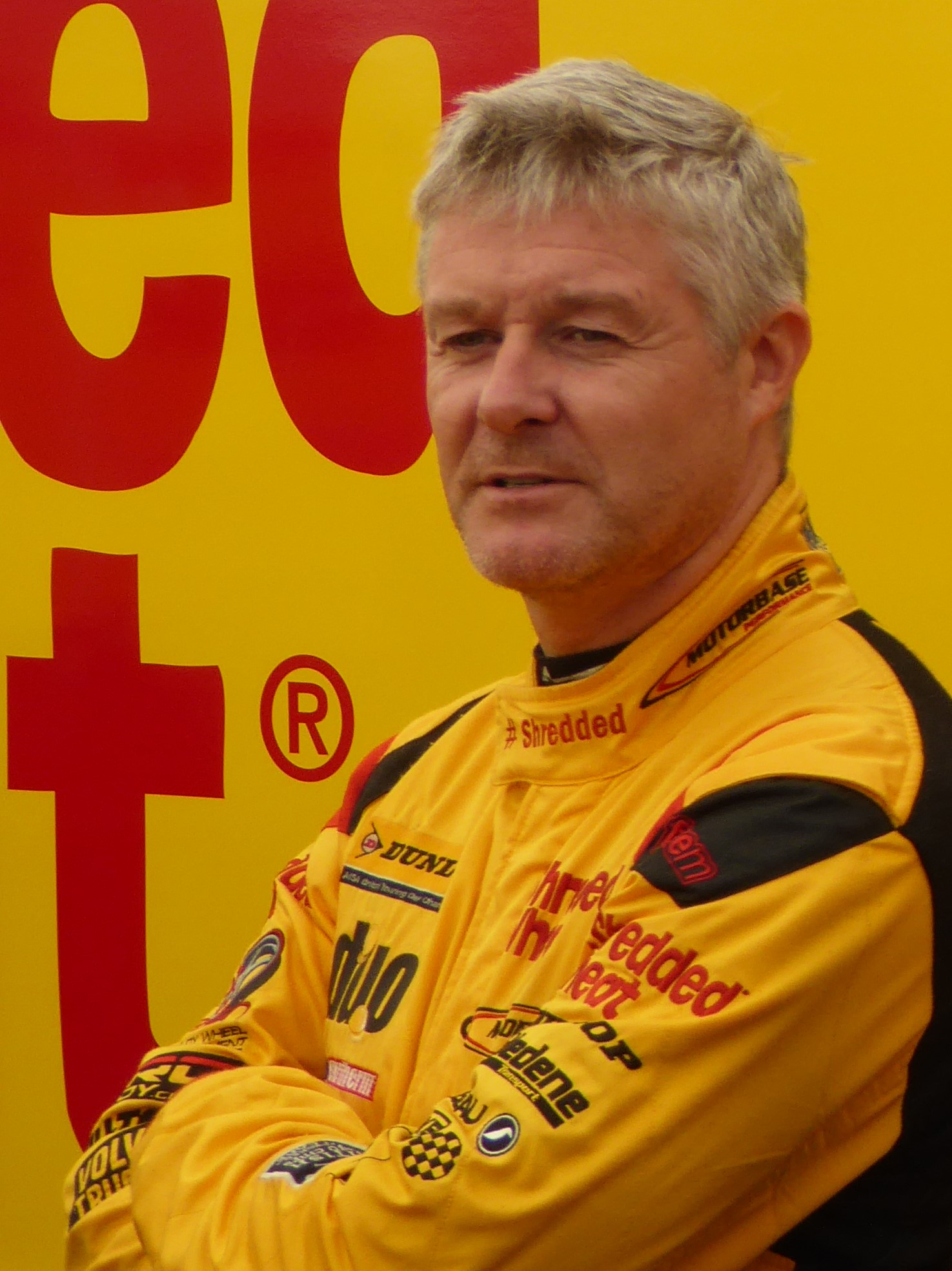 Martin Depper (Team Shredded Wheat Racing with Duo), at the Knockhill round of the 2017 British Touring Car Championship.